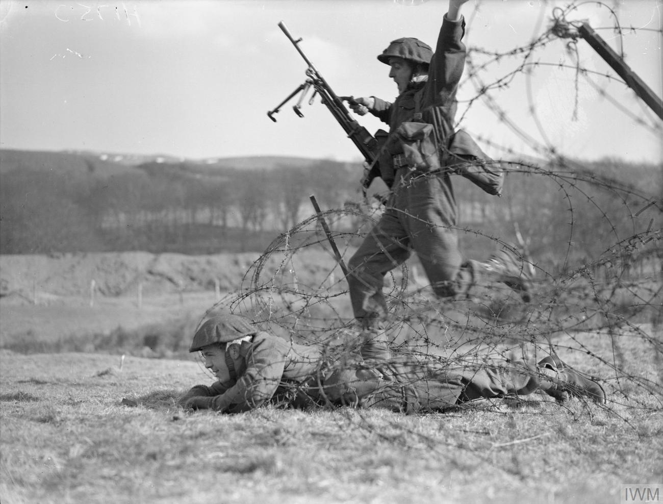 The British Army in the United Kingdom 1939-45 Commandos demonstrate a technique for crossing barbed wire during training in Scotland, 28 February 1942.